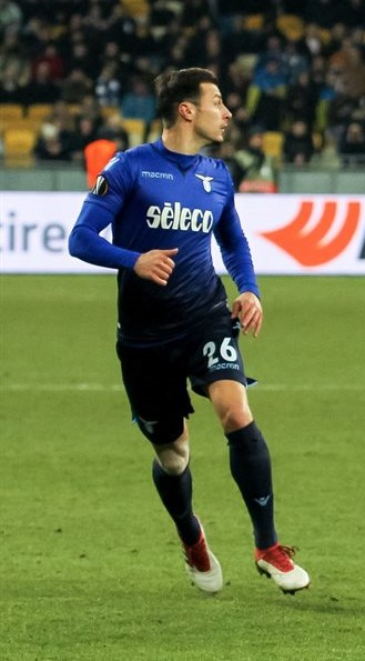 Ștefan Radu